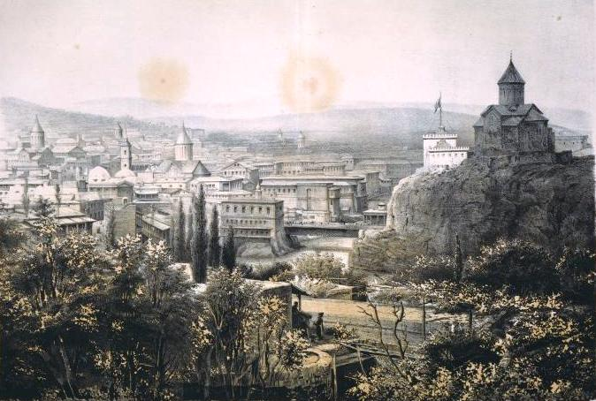 Tbilisi.